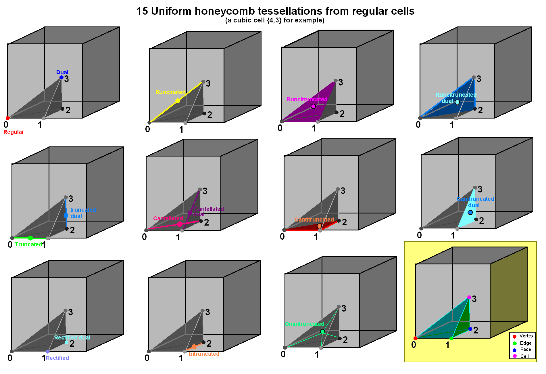 I made this LARGE image to better map the fundamental triangle generator points from :Image:Polychoron_truncation_chart.png into a 3d cell. According to Norman Johnson the fundamental cutting operations are: Truncation - cuts vertices (truncating) (polygons and higher) Cantellation - cuts edges (beveling) (polyhedra and higher) Runcination - cuts faces (planing) (polychoron and higher) Stericating - cuts cells (soliding)(5-polytopes and higher) Tom Ruen 08:07, 1 August 2006 (UTC)